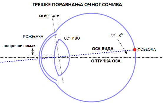 ОСНО НЕПОРАВНАЊЕ ОЧНОГ СОЧИВА